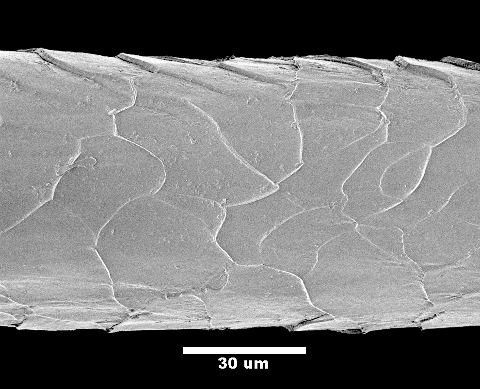 Scanning electron microscope image of a wool fibre from an Lincoln breed of sheep